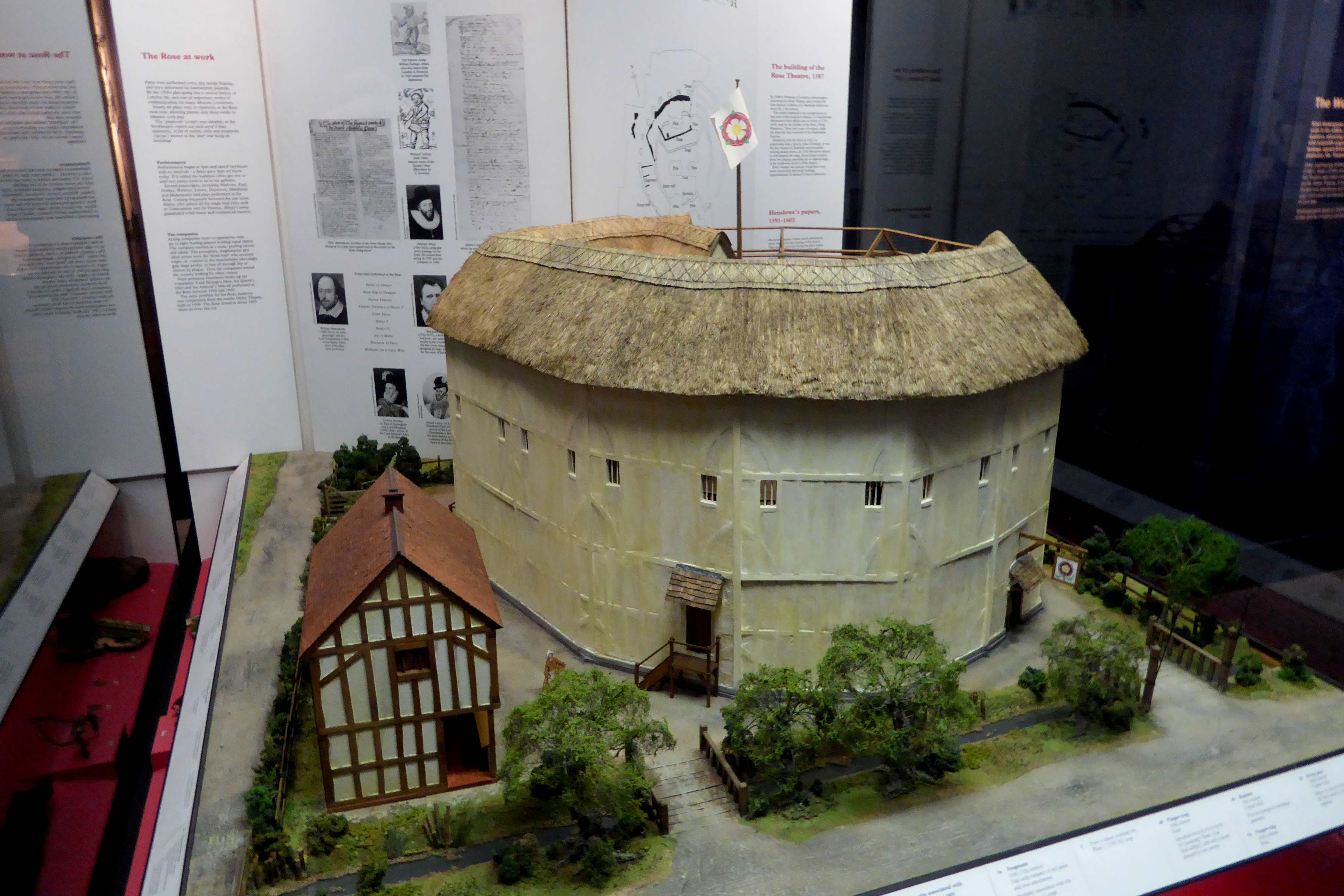 A model of The Rose, an early modern London theatre, in the Museum of London.